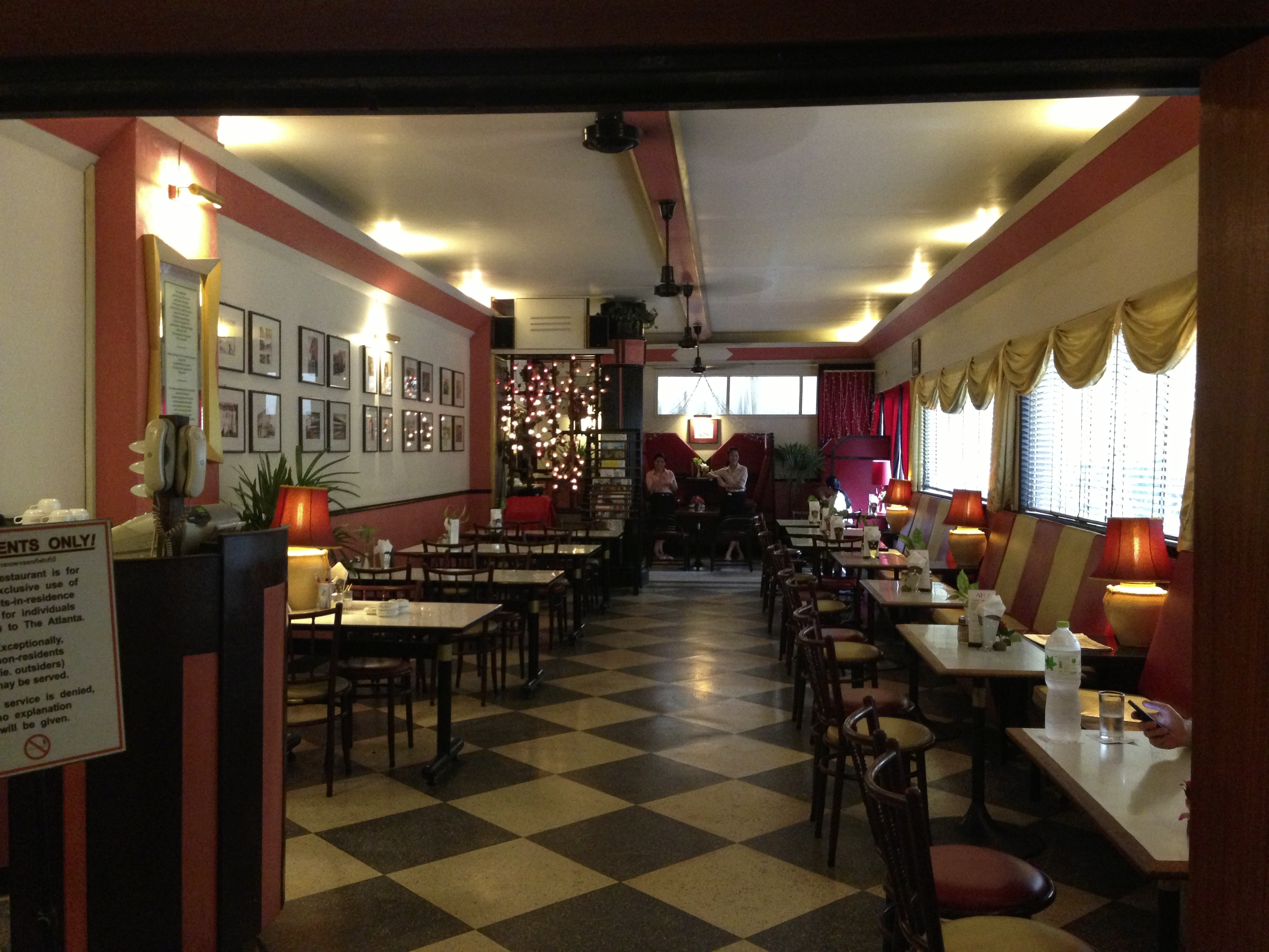 The Atlanta Hotel restaurant in Bangkok.